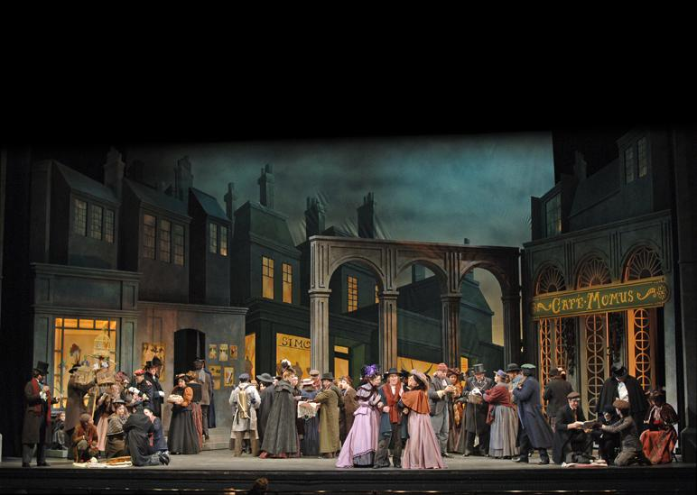 Photo by FGO Douglas Hamer